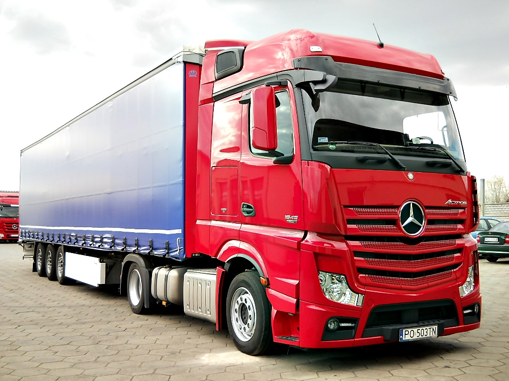 Nev Actros (Mercedes-Benz Actros MP4)